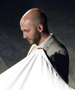 The opening ceremony of the First European Games. Olympic champions make the flag of the European Olympic Committee: Namik Abdullayev (Azerbaijan, freestyle wrestling), Thomas Bimis (Greece, synchronized diving), Niccolò Campriani (Italy, bullet shooting), Lucy Decoss (France, judo), Christina Fazekas (Hungary, kayaking and canoeing), Katie Taylor (Ireland, boxing), Servet Tajegul (Turkey, Taekwondo) and Elena Zamolodchikova (Russia, gymnastics)